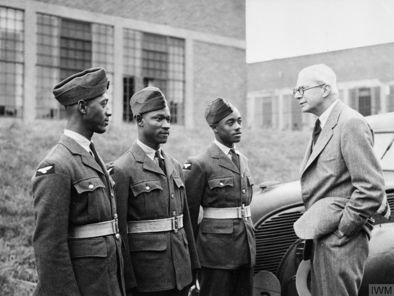 West Indians in Britain during the Second World War West Indians in the Royal Air Force: The Secretary of State for the Colonies, the Right Hon Oliver Stanley, seen chatting with three volunteers (Left to right: AC W P Ince of British Guiana, AC E Johnson of Jamaica and AC S E Johnson of Jamaica) during a passing out parade of West Indians at a Royal Air Force station in Yorkshire.